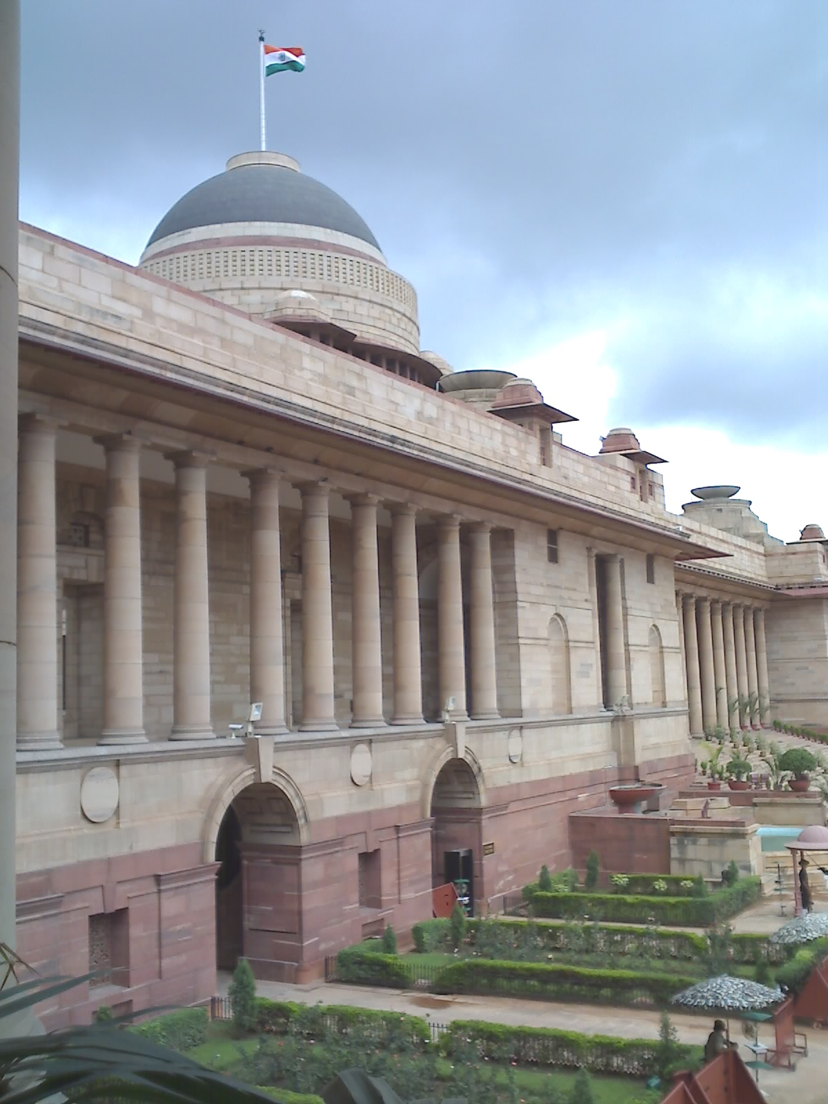 Snap taken self.